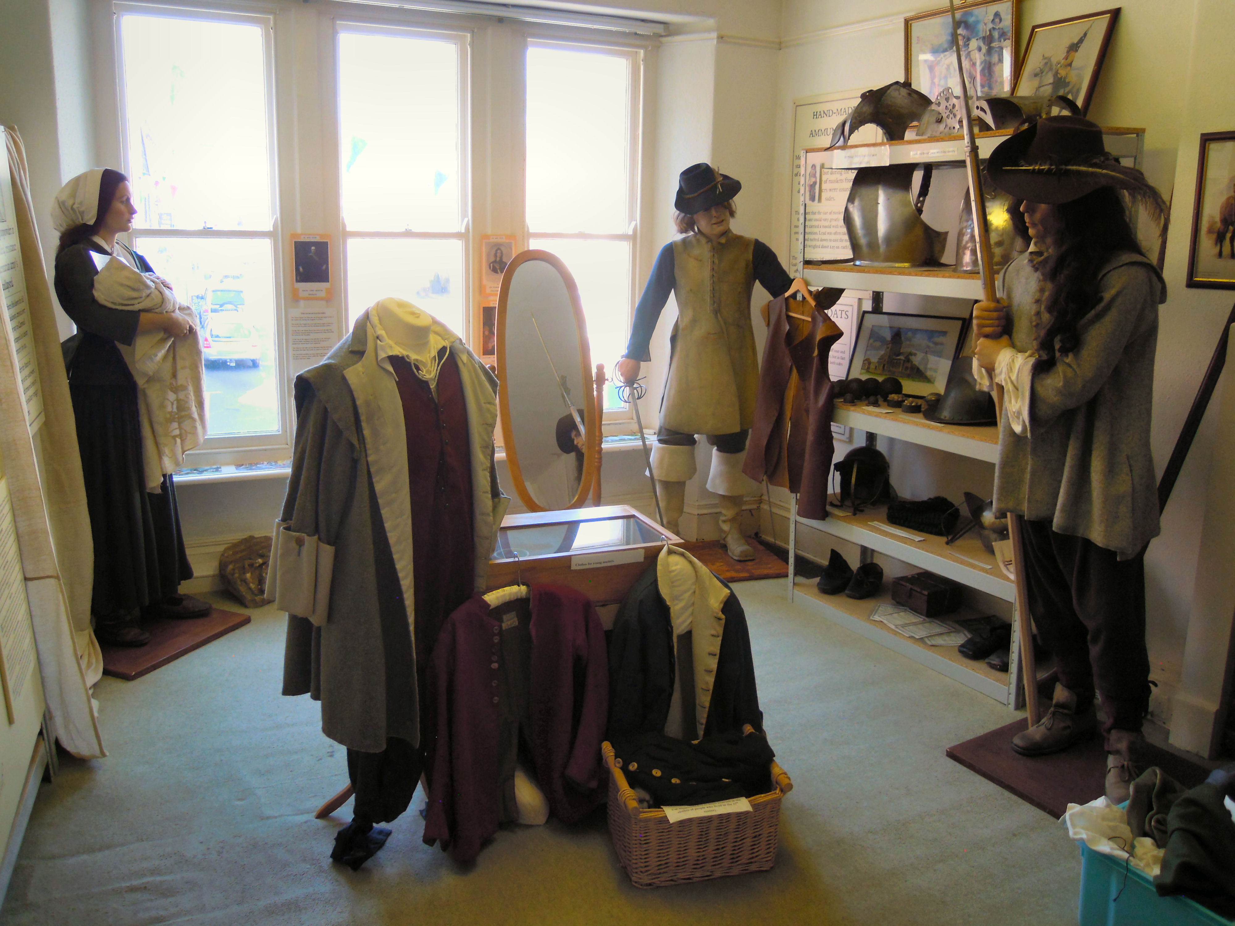 The First English Civil War display at the Market House in Torrington in Devon